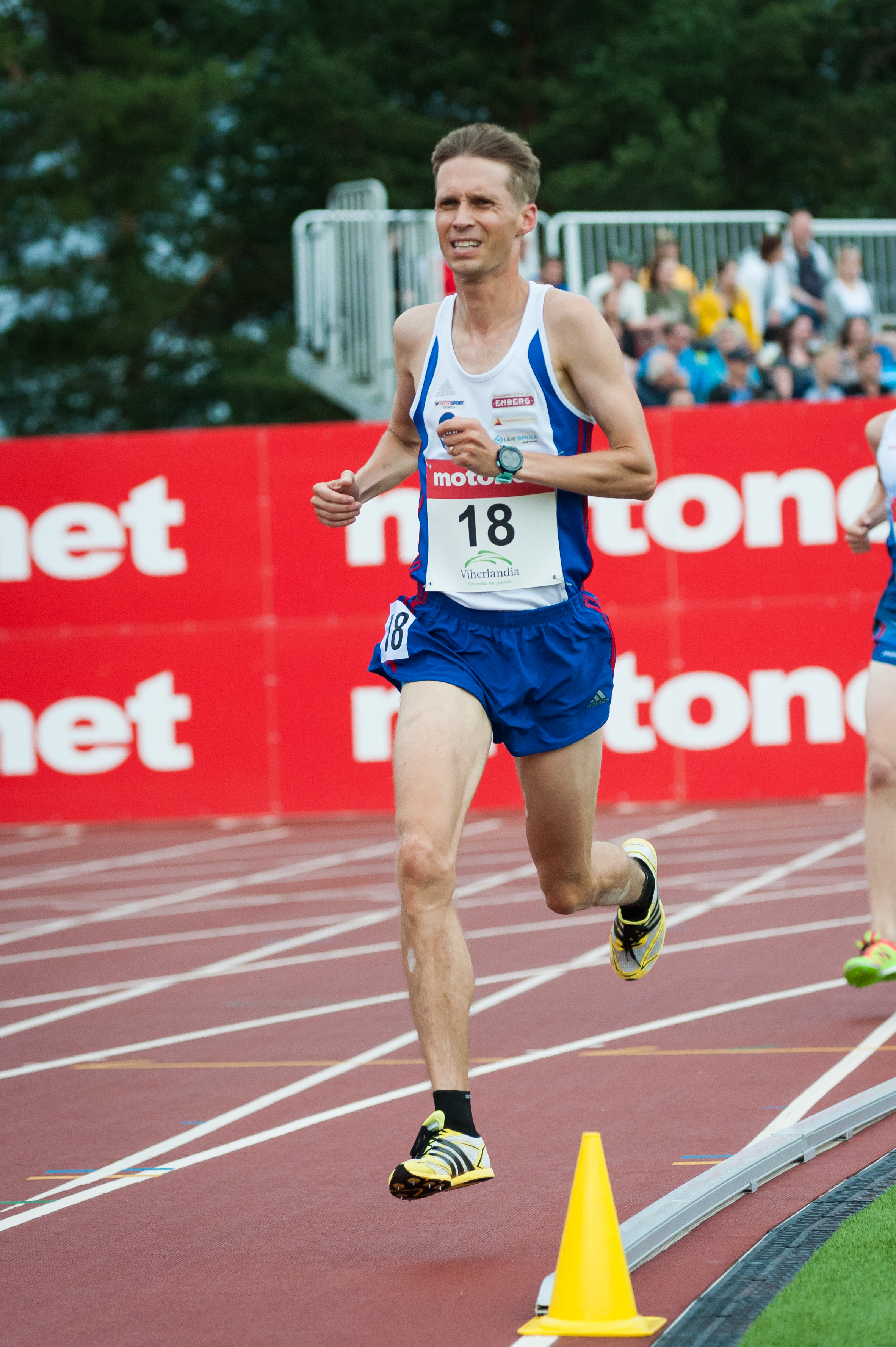 Men's 5000 m competition at the 2018 Kalevan Kisat, the Finnish championships in athletics, in Jyväskylä, Finland.